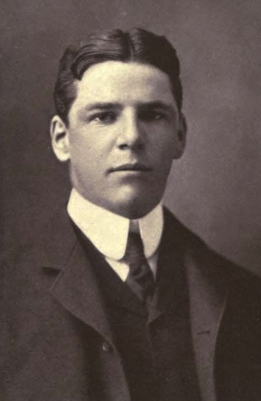 American tennis player Beals Coleman Wright